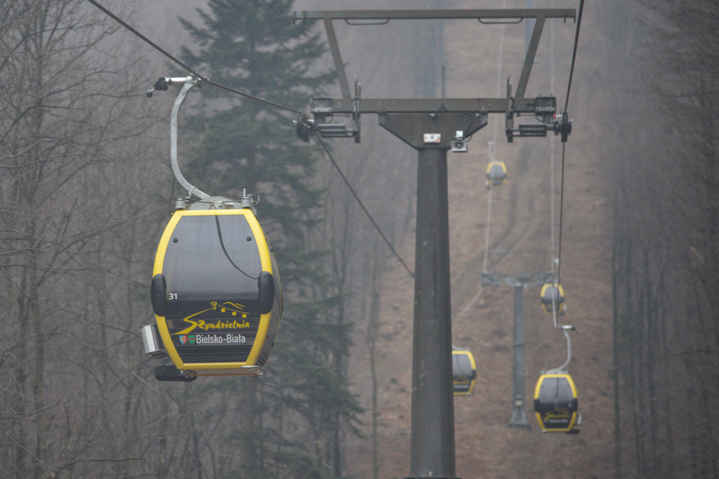 Cable car for Szyndzielnia after renovation, Bielsko-Biała, 2017